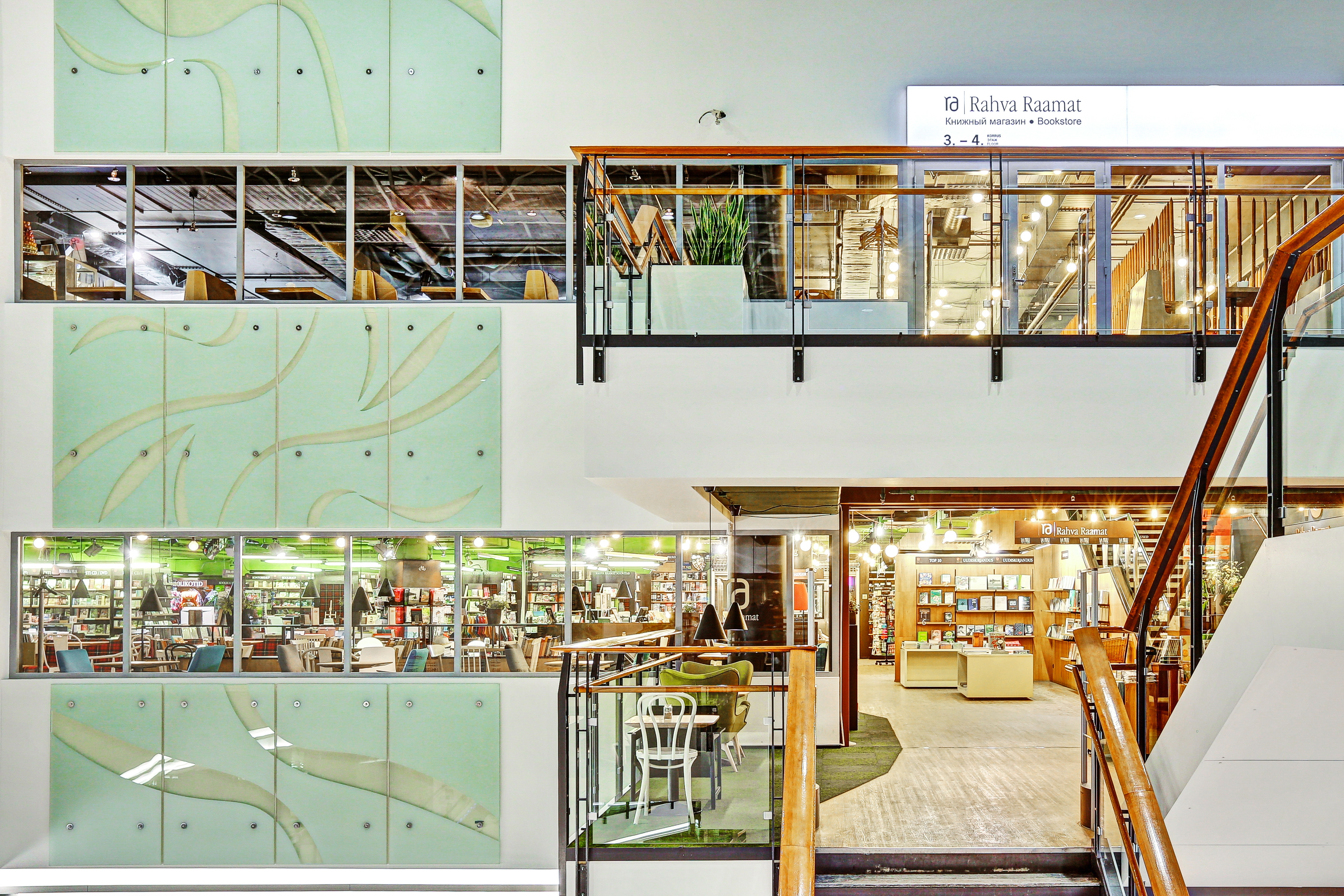 Rahva Raamat in Viru Keskus is Estonia's largest bookstore.